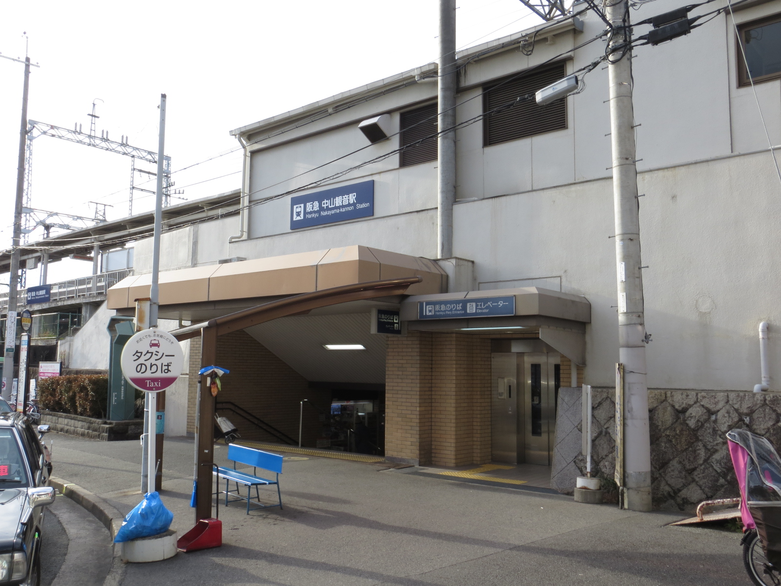 South from Nakayama-kannon Station (HK53), Hankyu Takarazuka Main Line.